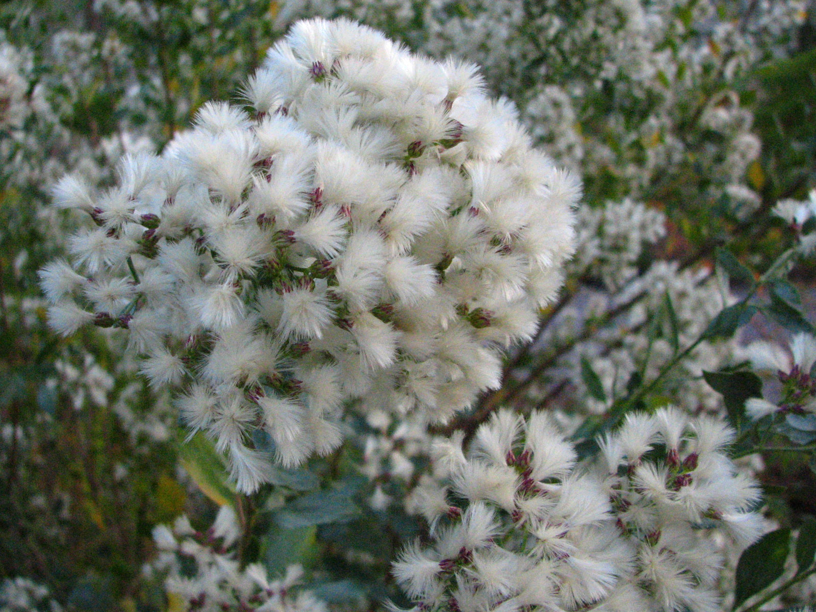 Baccharis halimifolia. Cultivated, National Botanic Garden, Washington, DC, USA